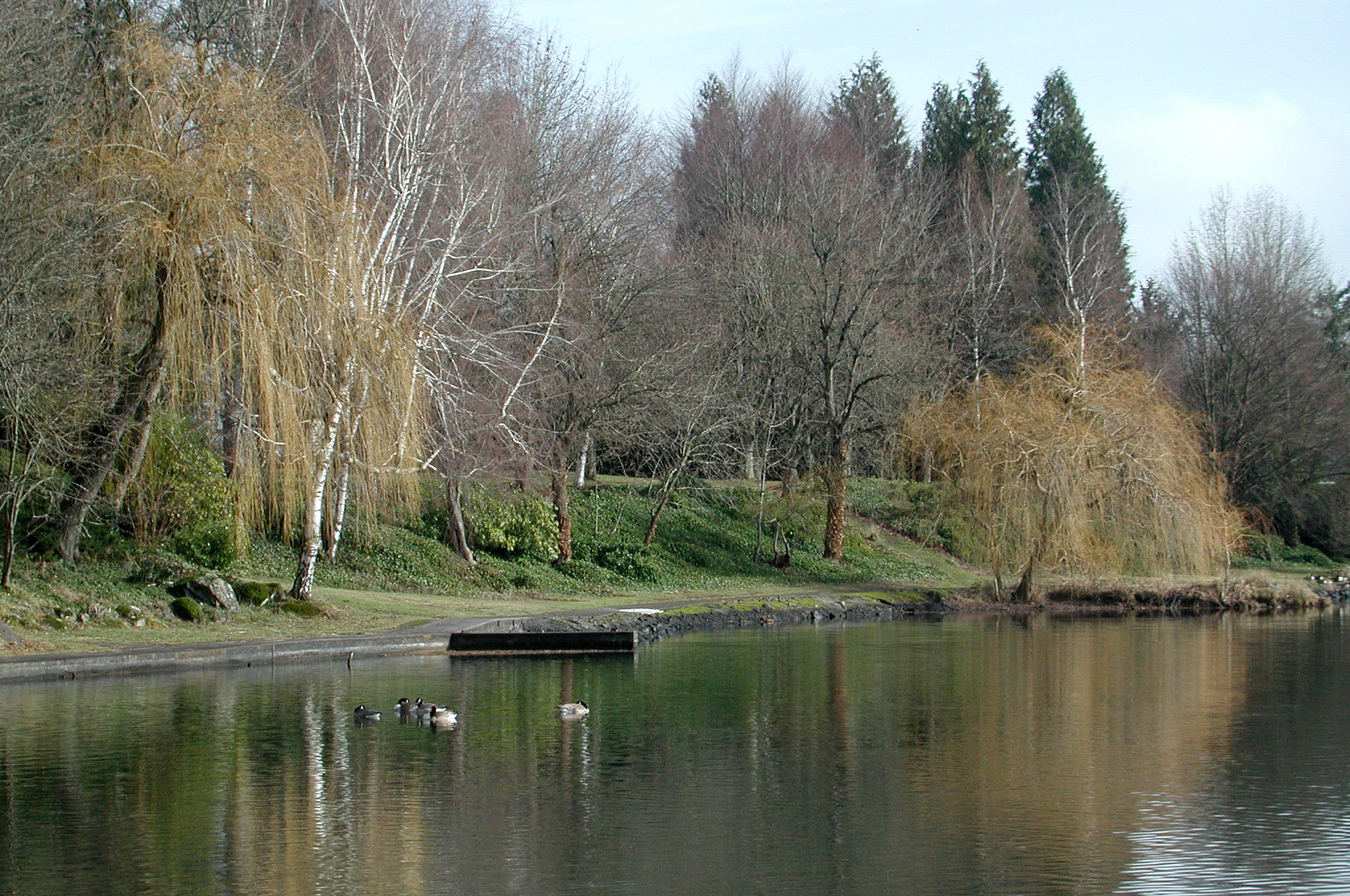 North shoreline of Blue Lake in Fairview, Oregon. Looking northeast from a walkway over the water in Blue Lake Regional Park.